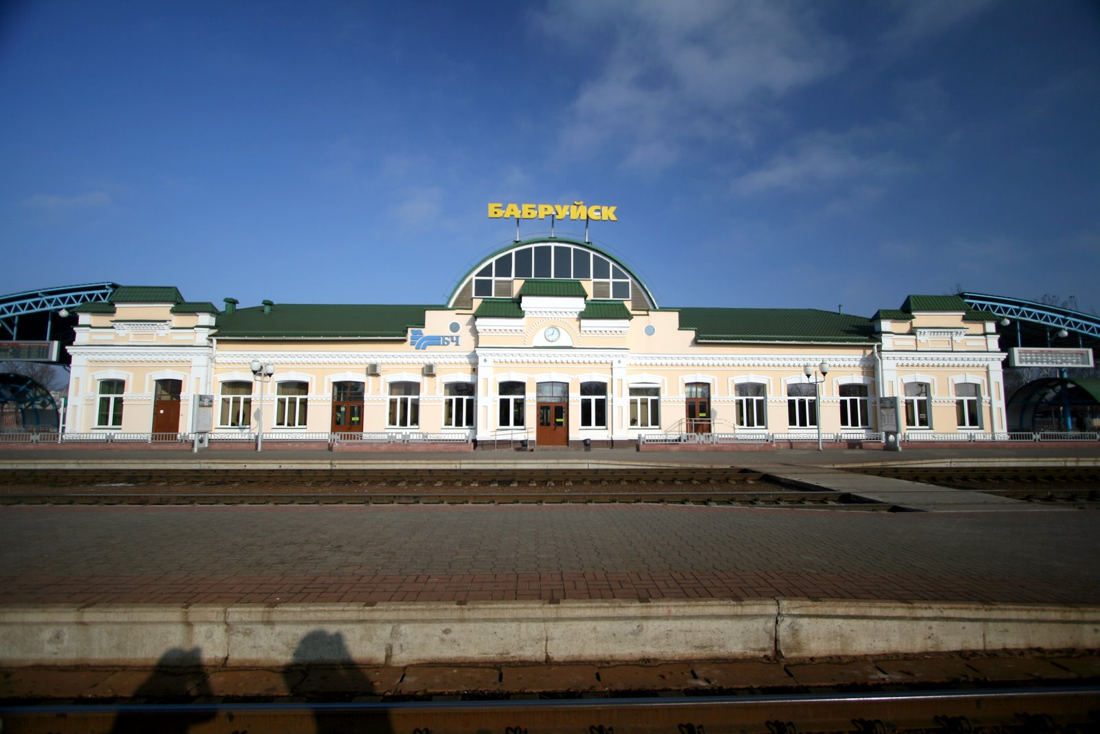 Train station in Babruysk, Belarus